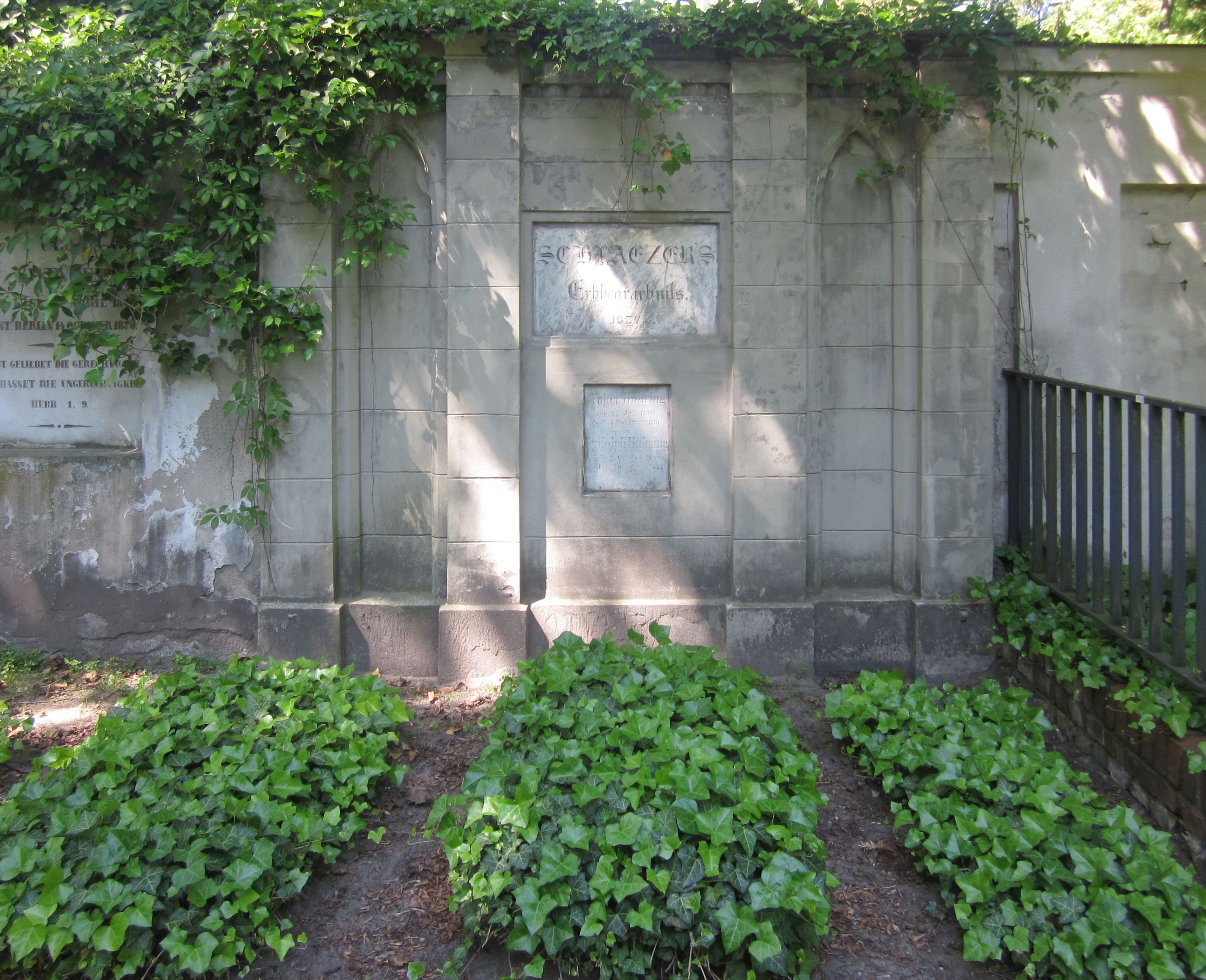 Family grave of the Schlaetzer (or Schlaezer) family on Cemetery I of Trinity Church in Berlin-Kreuzberg. This is the final resting place of architect Johann Gottlieb (or Gottlob) Schlaetzer (1771-1824).